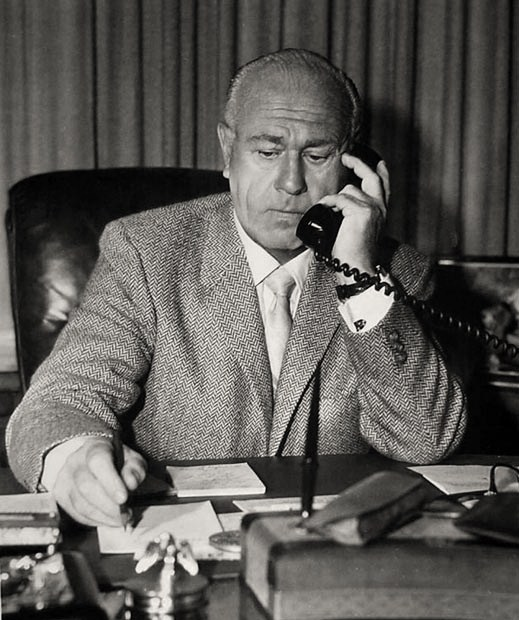 film producer Sol C. Siegel - publicity still